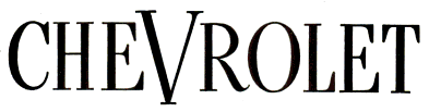 Chevrolet logo (circa 1943).